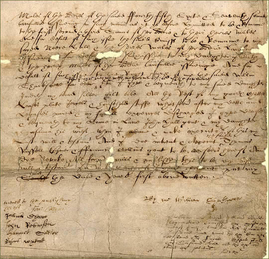 Page 3 of Shakespeare's will with his signature